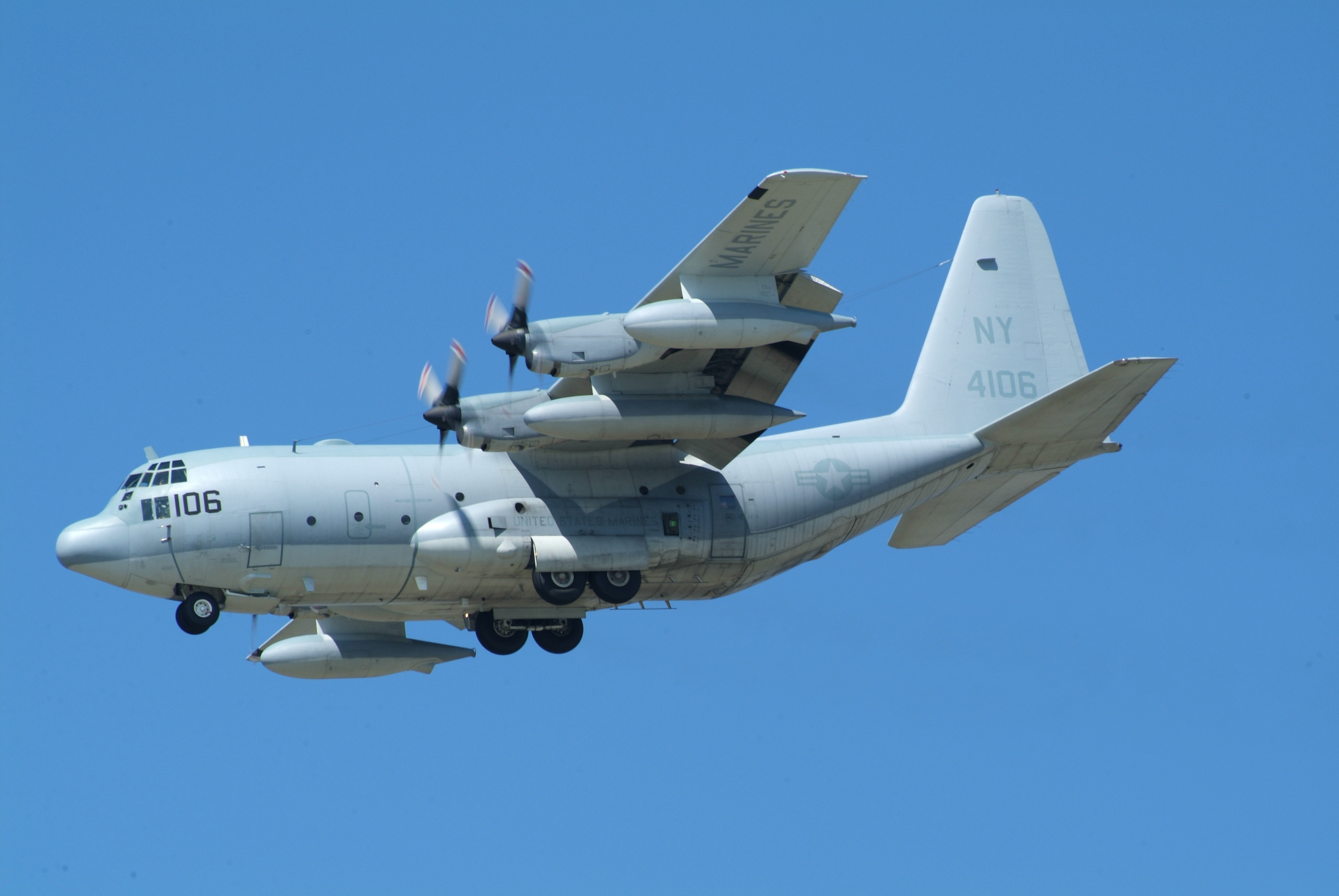 164106/NY a KC-130T of VMGR-452 landing at North Island NAS